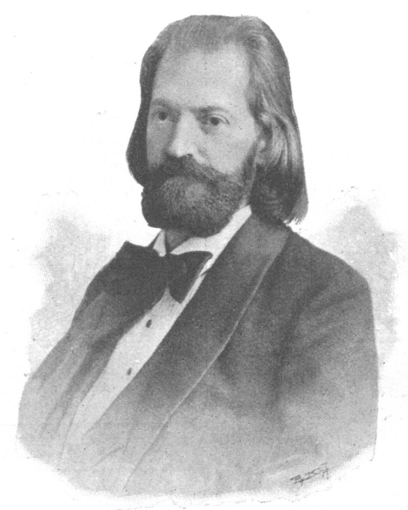 August Göllerich (1863–1933), Austrian pianist, conductor, music writer and teacher.